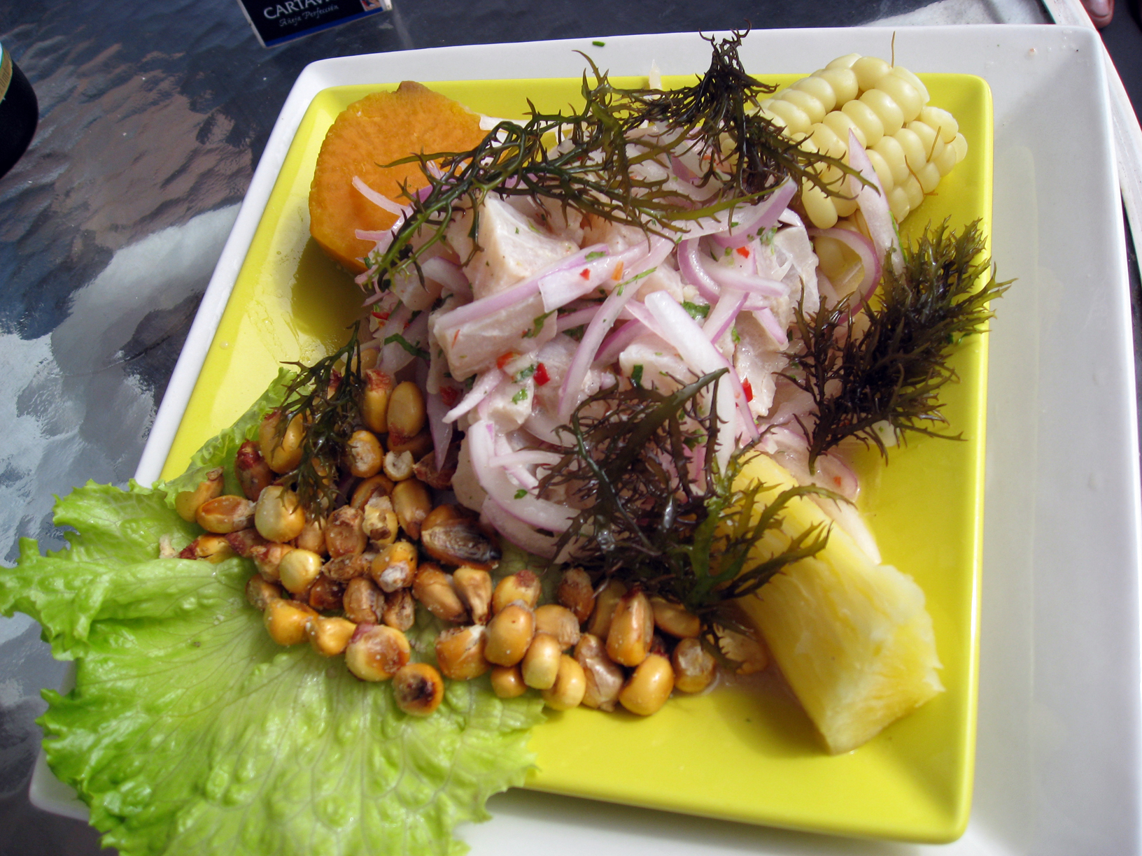 Fish Ceviche as served in La Punta - Callao (Peru). Note presentation with choclo (maize), yuca (cassava), cancha (toasted maize) and camote (sweet potato), covered with yuyo (sea weed).